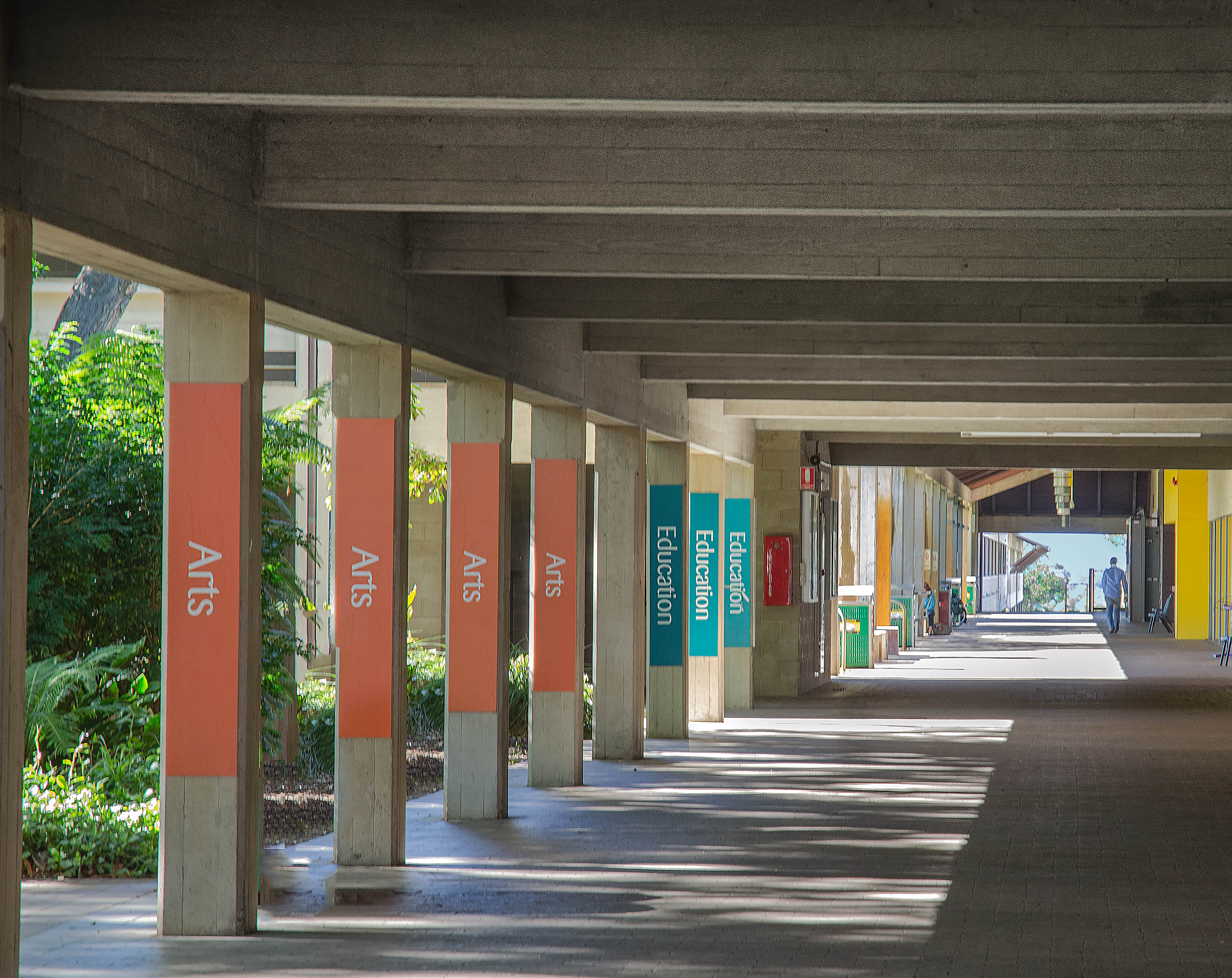 Looking down The Broadwalk at Murdoch University, at the western end near the Education and Humanities building.